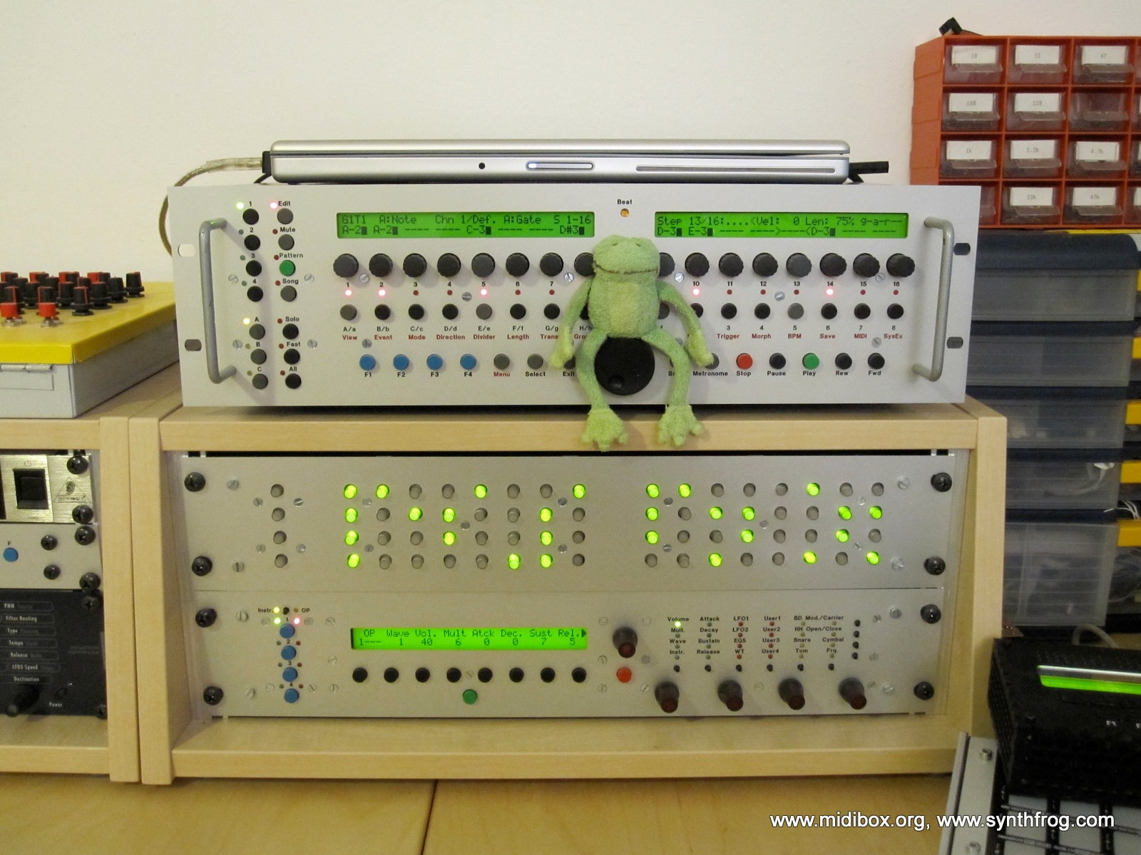 MIDIbox SEQ V3 unknown MIDIbox FM - based on Yamaha YMF262 (OPL3)